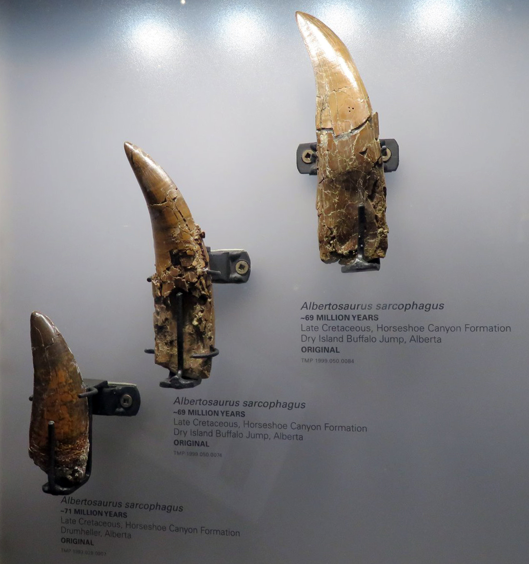 Albertosaurus teeth - Royal Tyrrell Museum